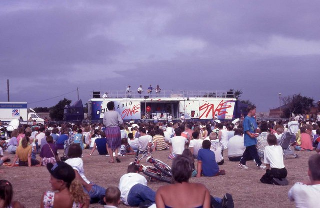 Radio 1 Roadshow on Southsea Common (1)